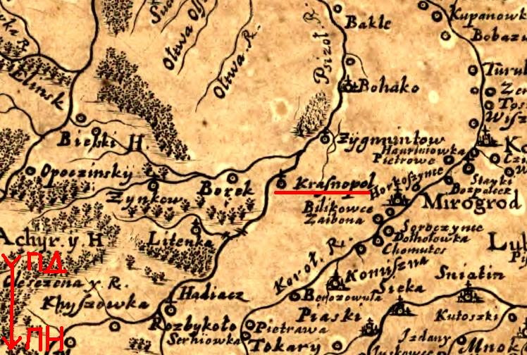 Krasnopil (Velyki Sorochyntsi) on map of Boplan, 1648